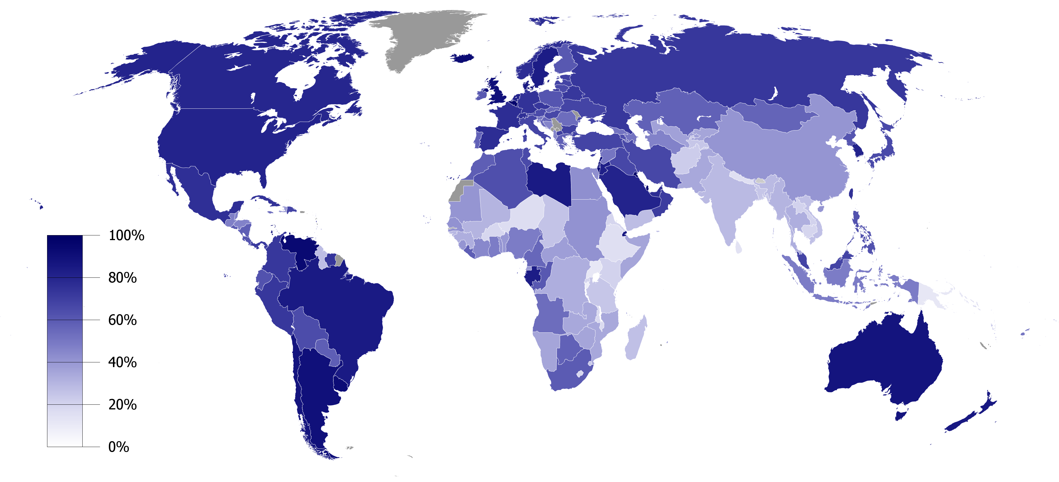 Urbanized population percentage by country as of 2006. Source: UNICEF, The State of the World’s Children 2008 (p. 134) This map was created with GunnMapGunnMap was created by Arthur Gunn and is available, free, at and attribute by linking to